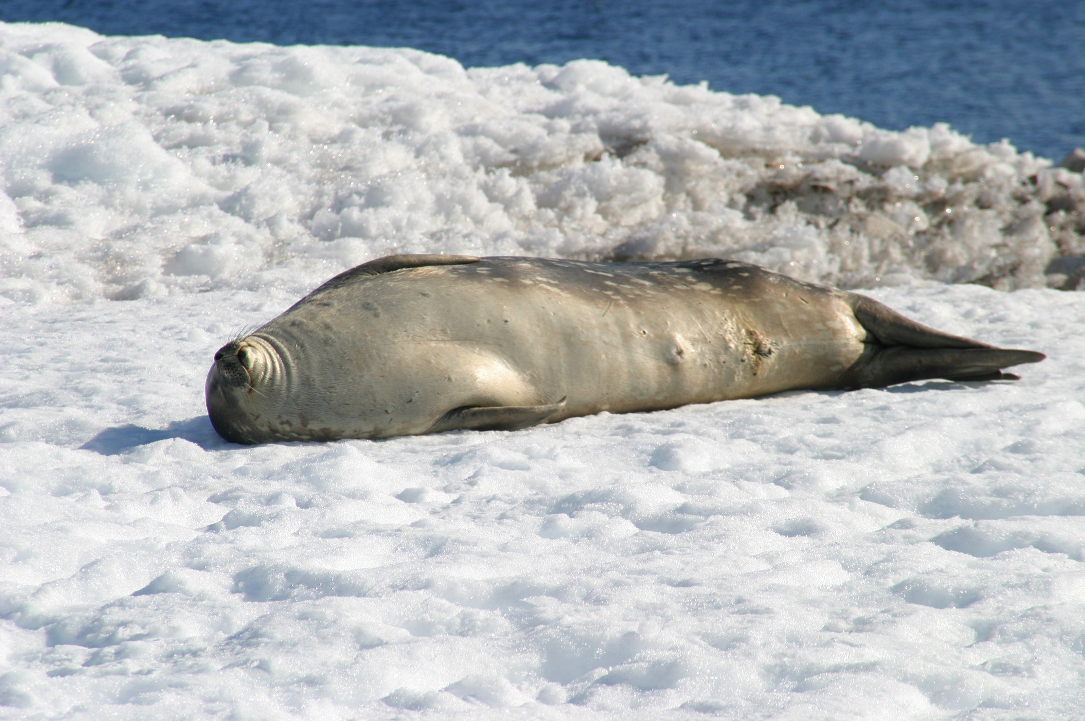 Cuverville Island, Antarktis: The weddel is one of the southernmost inhabitants of Antarctica. The animals weigh 400 to 500 kilograms and have a length of about 3 meters.